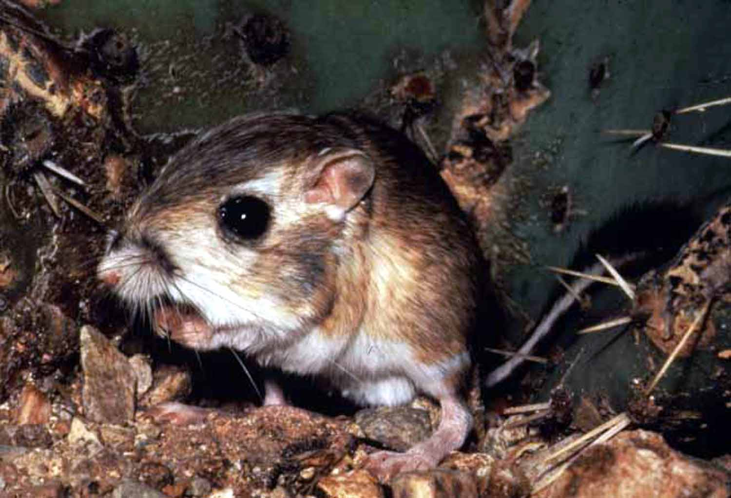 Kangaroo Rat